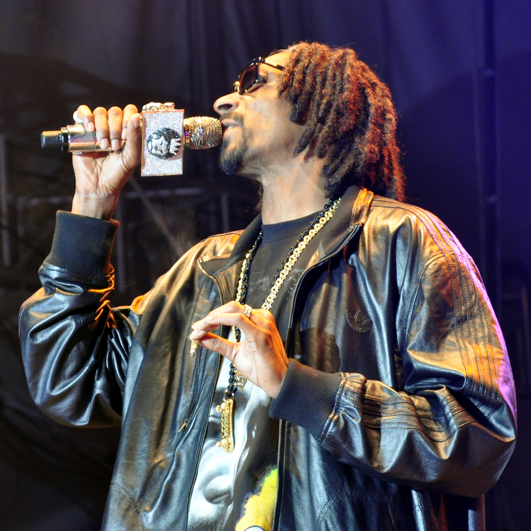 Snoop Lion at red stage on Summerjam Festival 2013